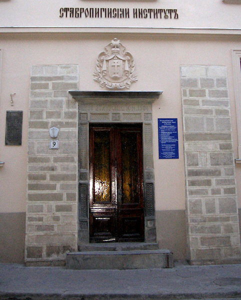 Stavropigia Institution building in Lviv